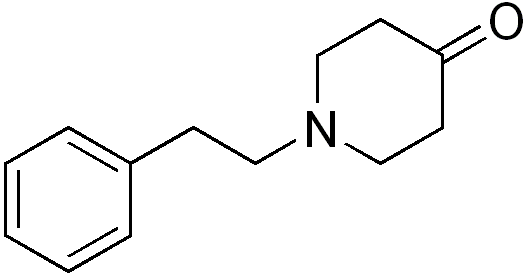 chemical structure of 1-phenylethyl-4-piperidinone